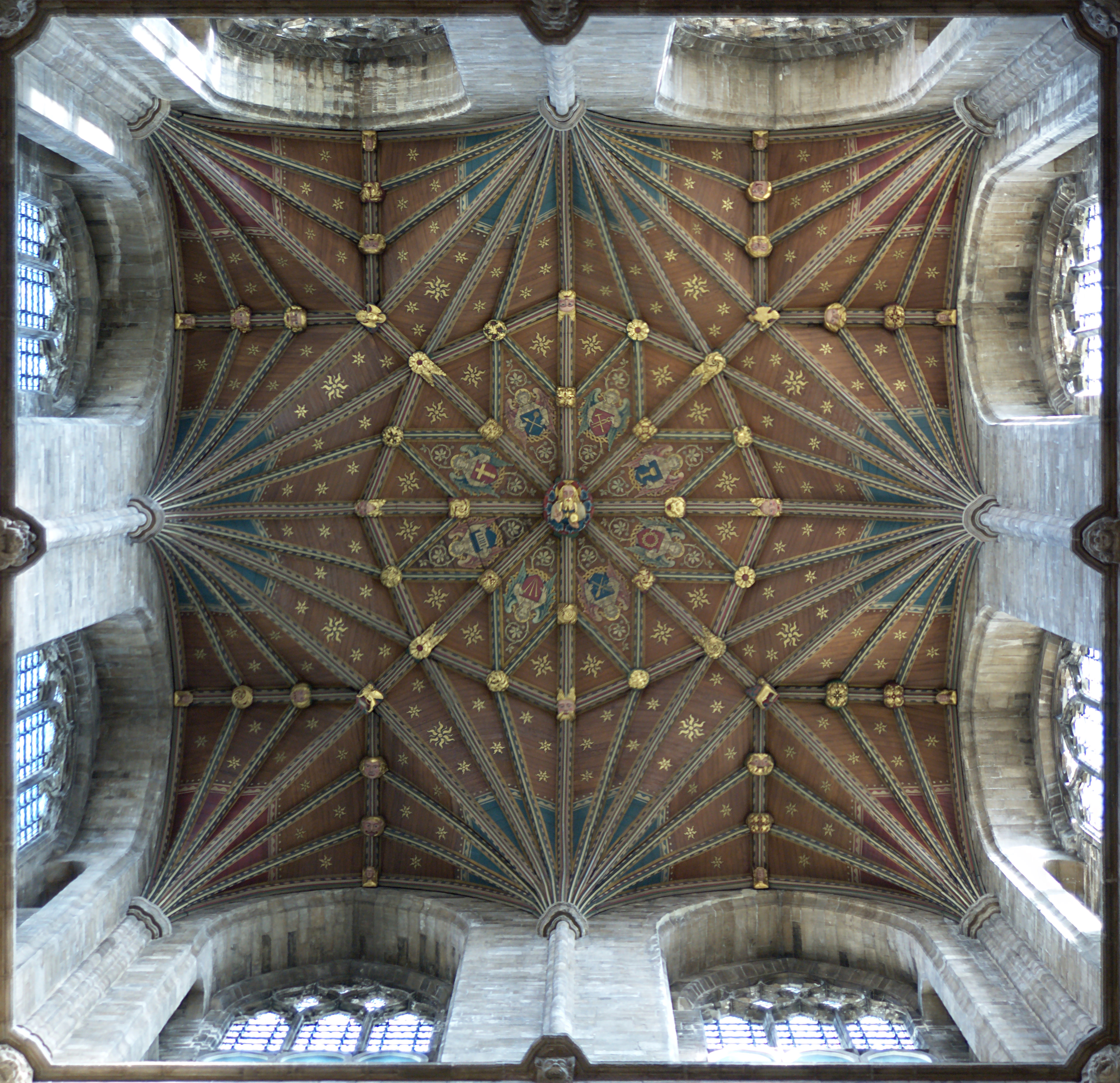 Ceiling inside the main tower of Peterborough Cathedral